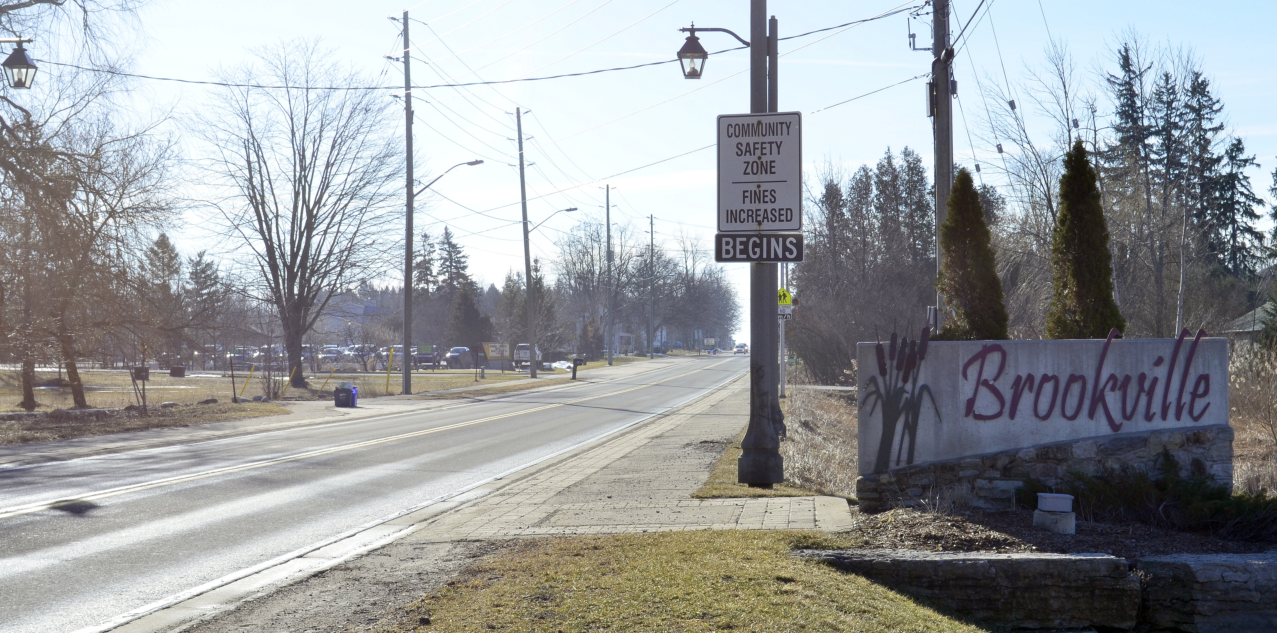 Looking south on Guelph Line at welcome sign in Brookville, Ontario.